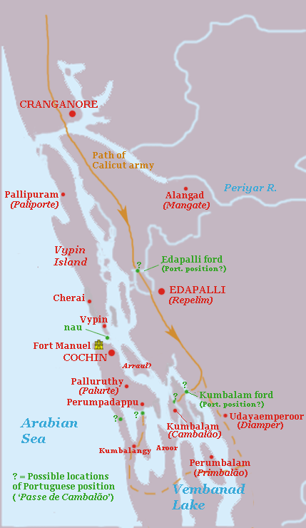 Map indicating some possible positions of the ' Pass of Cambalão', the position where the Portuguese force under Duarte Pacheco Pereira held against the Zamorin of Calicut during the Battle of Cochin in April, 1504. The map is highly conjectural, based roughly on the modern geography of Kochi and Vembanad lake, which has probably changed substantially since the 16th C. Green dots = possible locations of the Portuguese position, Straight line = most probable route of Calicut army; Dotted line = alternative longer route for army of Calicut.